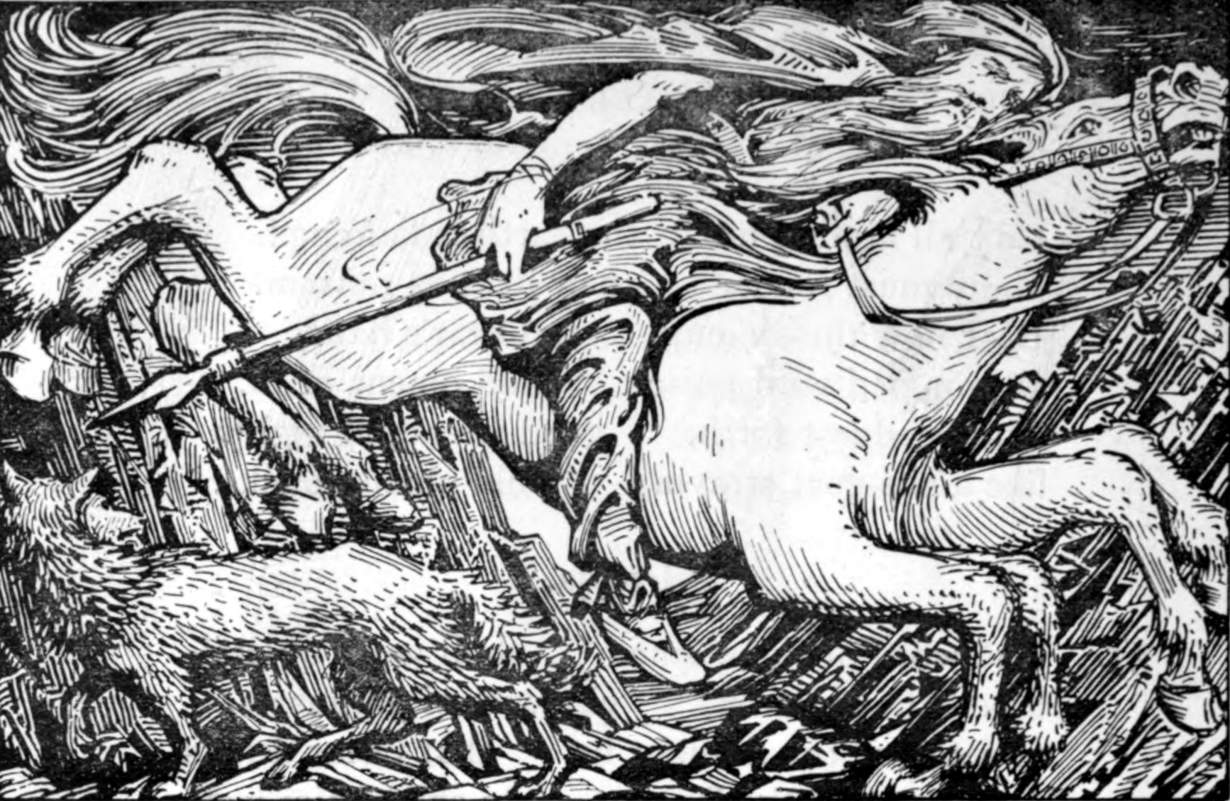 An illustration to Baldrs draumar. The list of illustrations in the front matter of the book gives this one the title Odin rides to Hel.